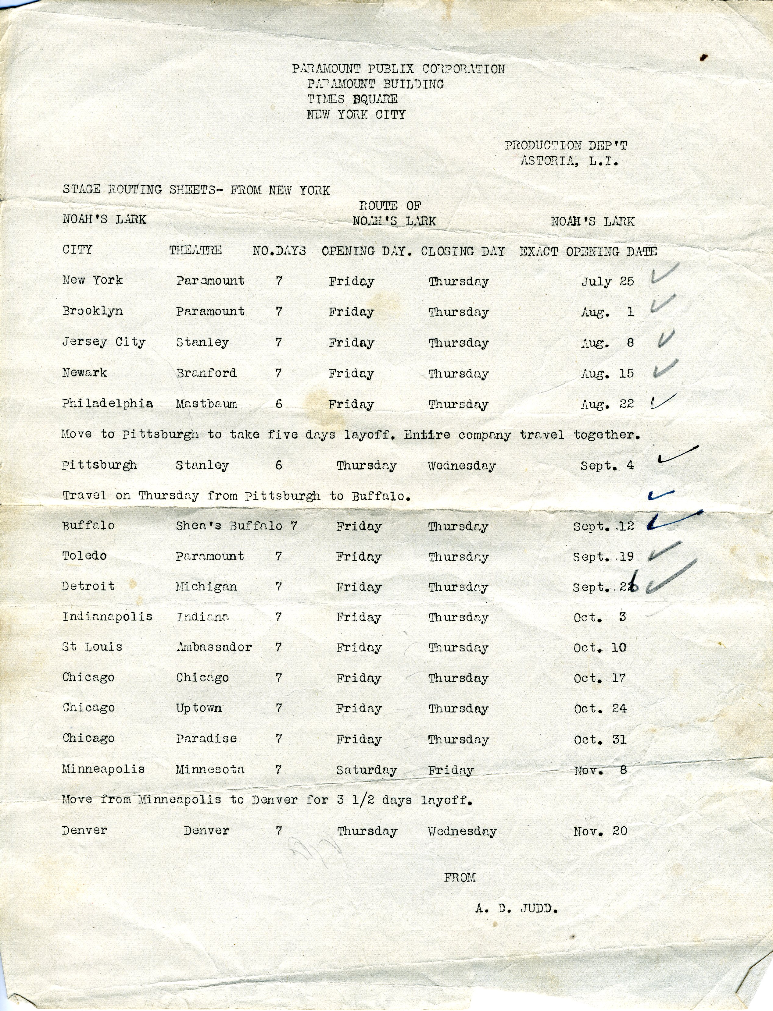 Itinerary of Noah's Lark